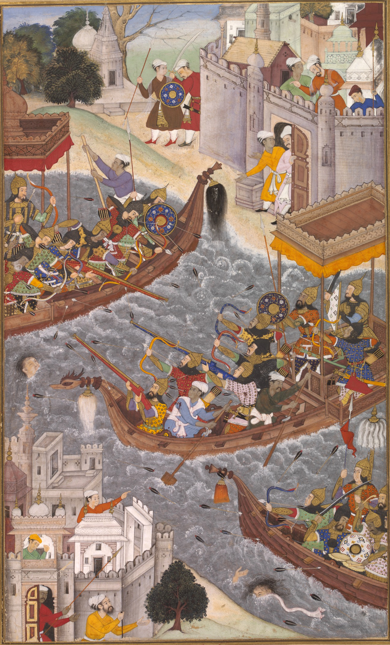 This painting by the Mughal court artists Tulsi the Elder and Jagjivan from the Akbarnama (Book of Akbar) depicts Shuja’at Khan pursuing Asaf Khan on the River Ganges in north-east India. Asaf Khan was vizier to the Mughal emperor Akbar (r.1556–1605). He was also a highly effective military leader but, for reasons that are obscure in the text of the Akbarnama, kept treasure that the Mughal forces had seized during a successful campaign in 1565. He tried to flee with his supporters across the Ganges, where Akbar’s forces, led by the general Shuja’at Khan, caught up with him. A fierce confrontation followed, depicted in this illustration, but Asaf Khan escaped. In 1567, he sent messengers to the court asking for forgiveness, which was granted. The Akbarnama was commissioned by Akbar as the official chronicle of his reign. It was written in Persian by his court historian and biographer, Abu’l Fazl, between 1590 and 1596, and the V&A’s partial copy of the manuscript is thought to have been illustrated between about 1592 and 1595. This is thought to be the earliest illustrated version of the text, and drew upon the expertise of some of the best royal artists of the time. Many of these are listed by Abu’l Fazl in the third volume of the text, the A’in-i Akbari, and some of these names appear in the V&A illustrations, written in red ink beneath the pictures, showing that this was a royal copy made for Akbar himself. After his death, the manuscript remained in the library of his son Jahangir, from whom it was inherited by Shah Jahan.